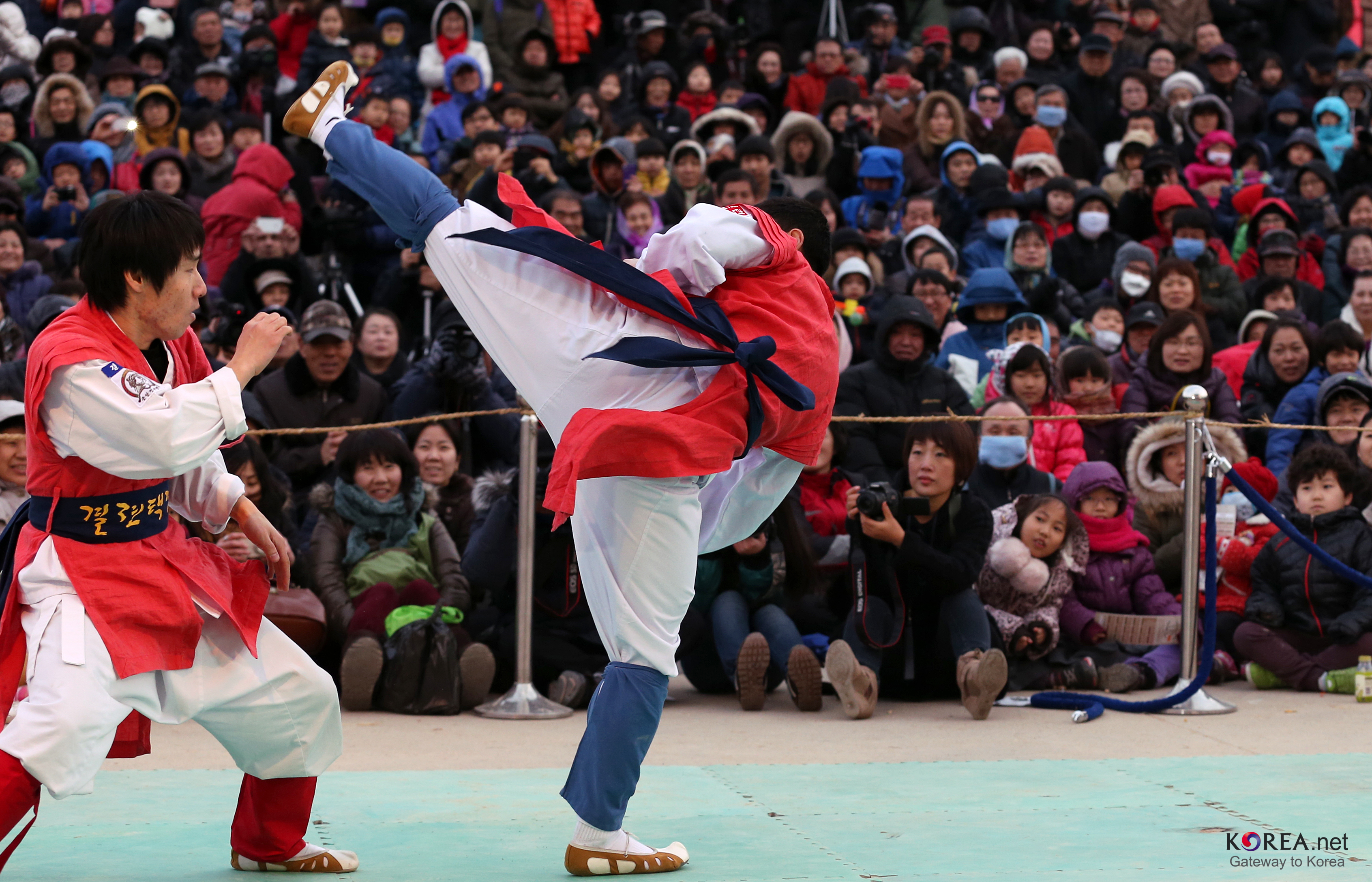 Jeongwol Daeboreum Sketch Jeongwol Daeboreum, the first full moon of the lunar calendar, is one of the biggest traditional holidays celebrated across Korea. Namsangol Hanok Village, Seoul 2013.02.24. Ministry of Culture, Sports and Tourism Korean Culture and Information Service Jeon Han 정월대보름 스케치 남산골한옥마을 문화체육관광부 해외문화홍보원 코리아넷 전한